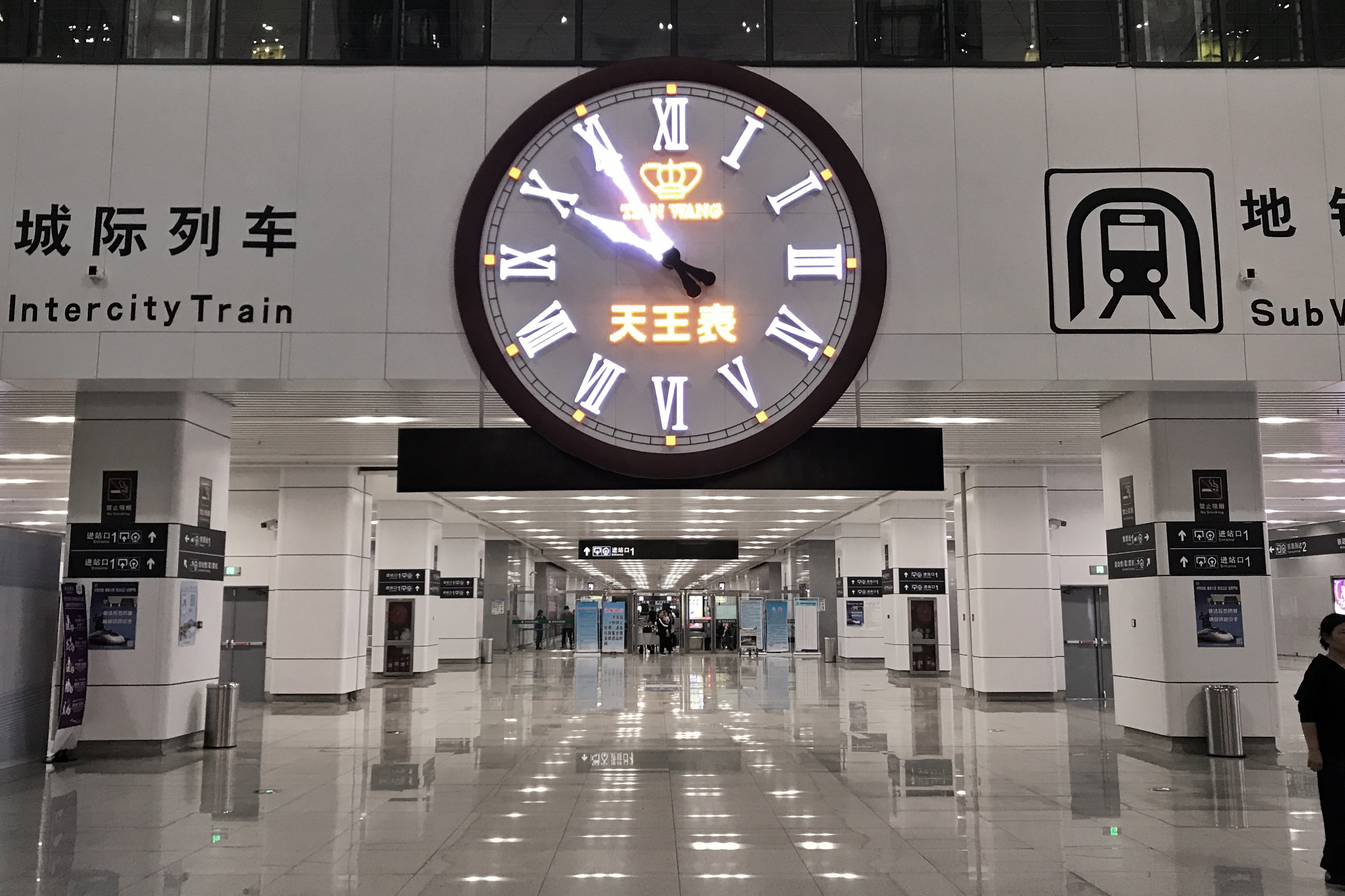 Concourse of Xinzheng Airport railway station